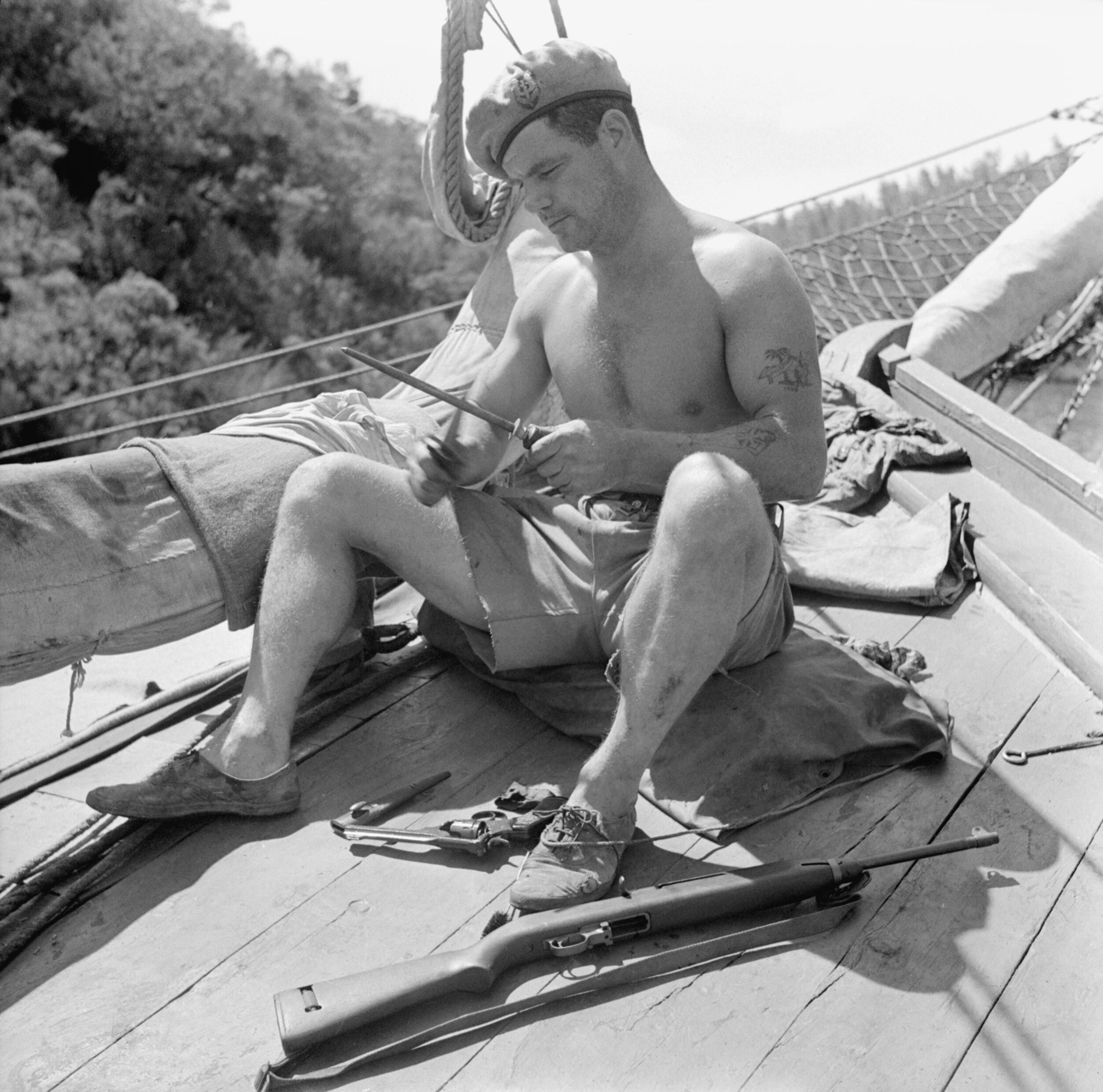 British Special Forces in the Aegean, 1944 Corporal Aubrey of the SBS (Special Boat Service) sharpens his fighting knife as he prepares for combat.